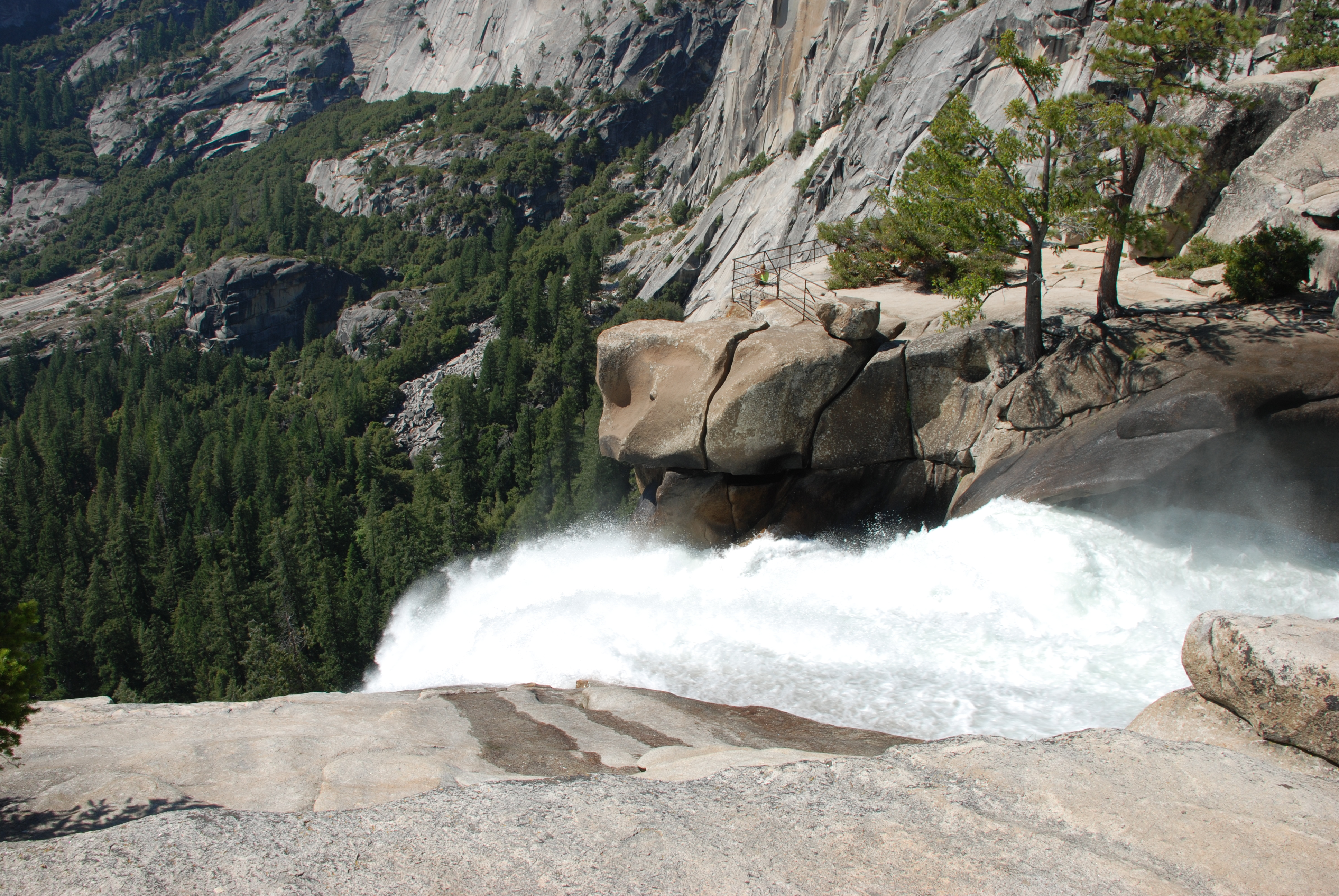 Viewpoint at the top of Nevada Fall, Yosemite National Park, California, USA